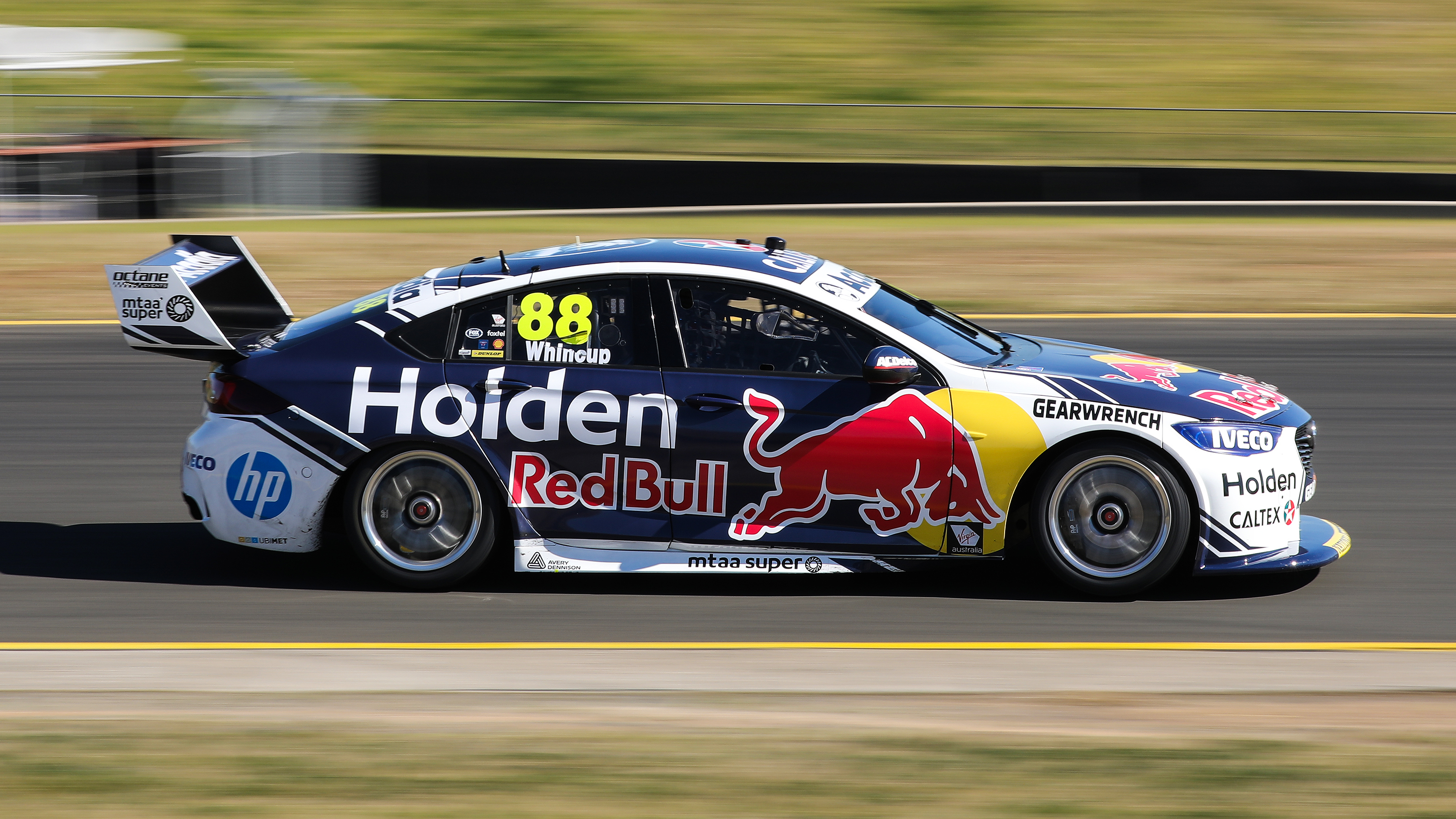 The Holden Commodore ZB of Jamie Whincup at a Supercars Ride Day in August 2019.